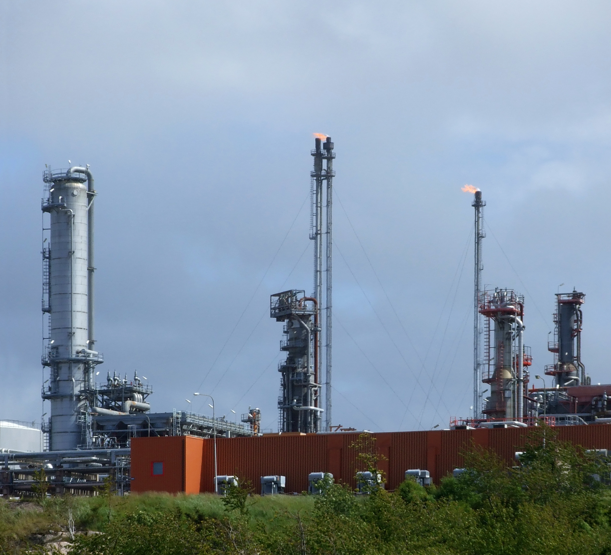 Processing towers at the Preemraff oil refinery in Lysekil, Sweden. Photon taken from the parking lot 7 June 2015.